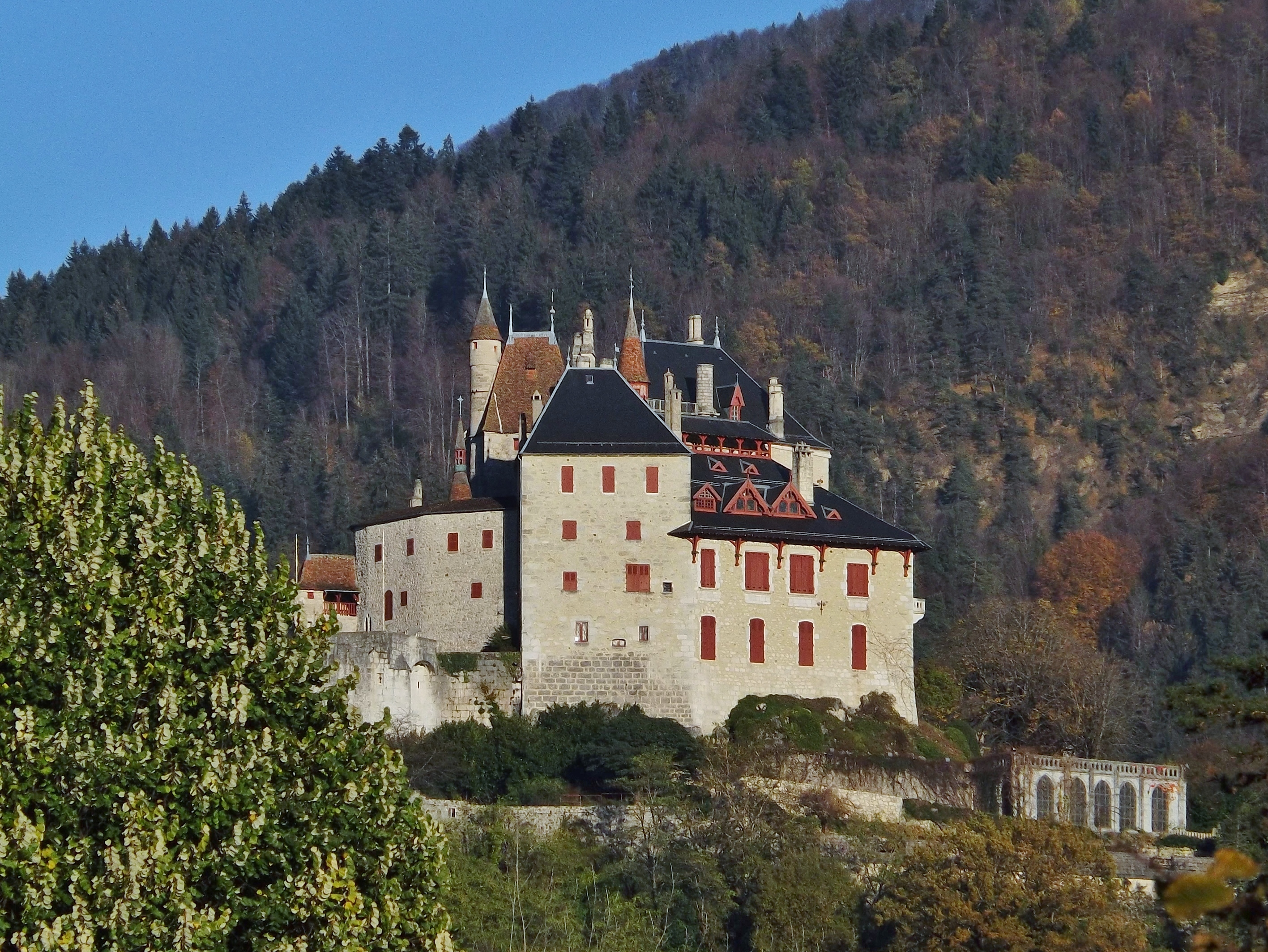 Sight of the château de Menthon-Saint-Bernard castle, seen from the lac d'Annecy lake coast, on Menthon-Saint-Bernard in Haute-Savoie, France.